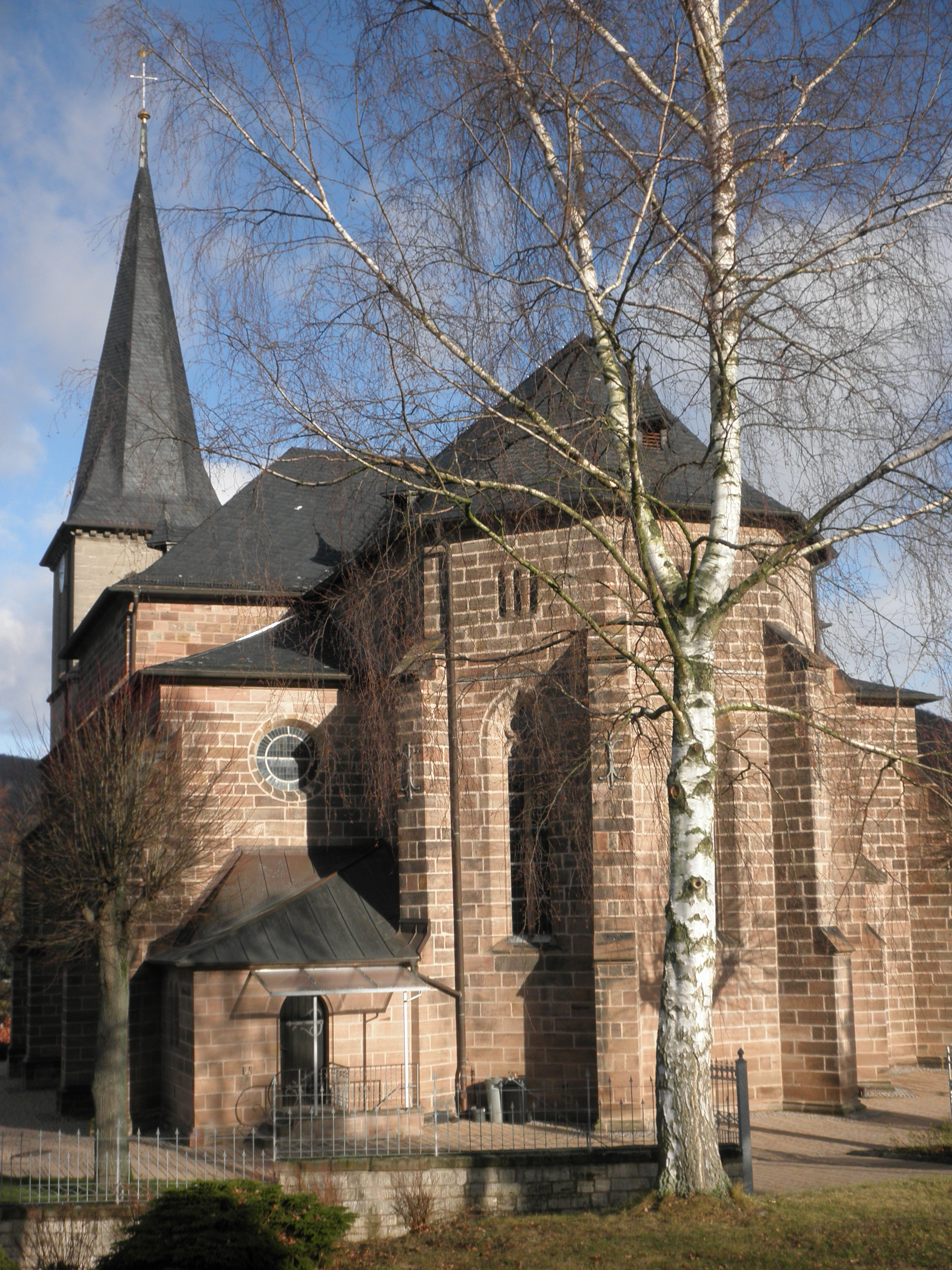 Church in Lengenfeld unterm Stein (Eichsfeld) in Thüringen